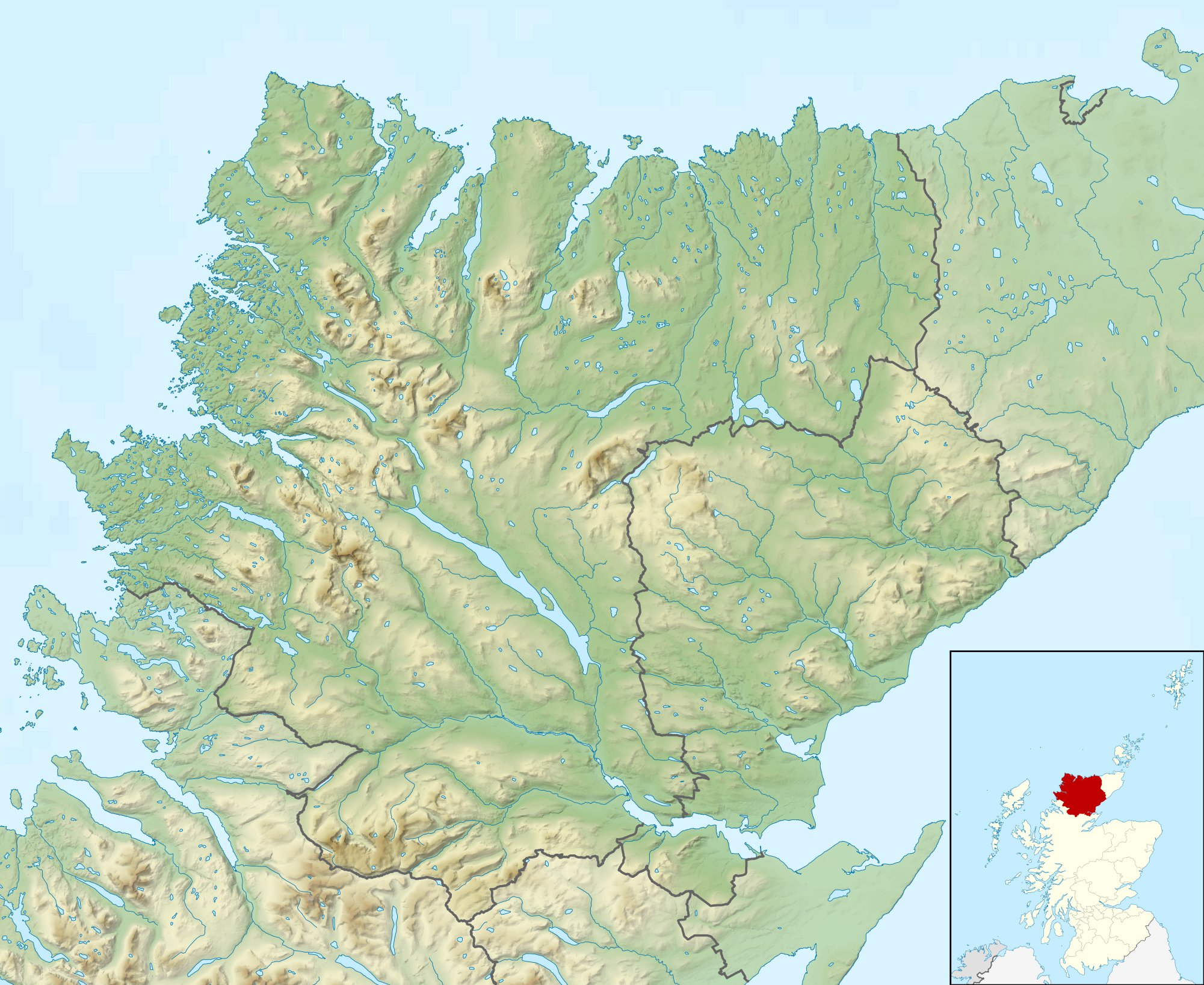 Relief map of Sutherland, UK. Equirectangular map projection on WGS 84 datum, with N/S stretched 180% Geographic limits: West: 5.5W East: 3.3W North: 58.7N South: 57.7N